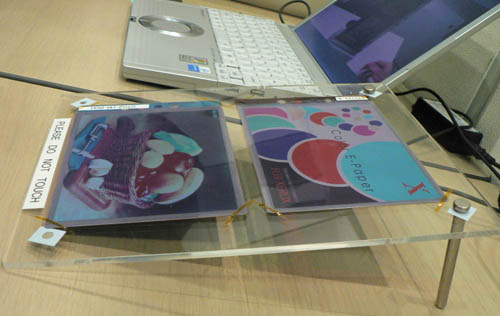 RGB GYRICON